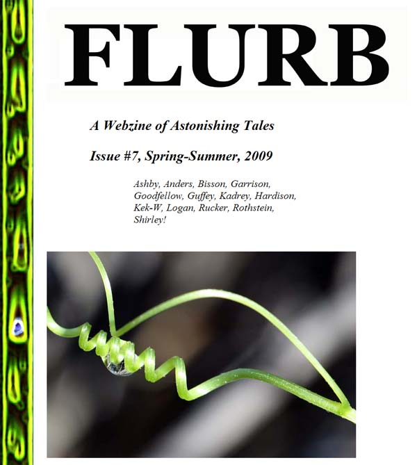 Cover of issue #7 of FLURB webzine